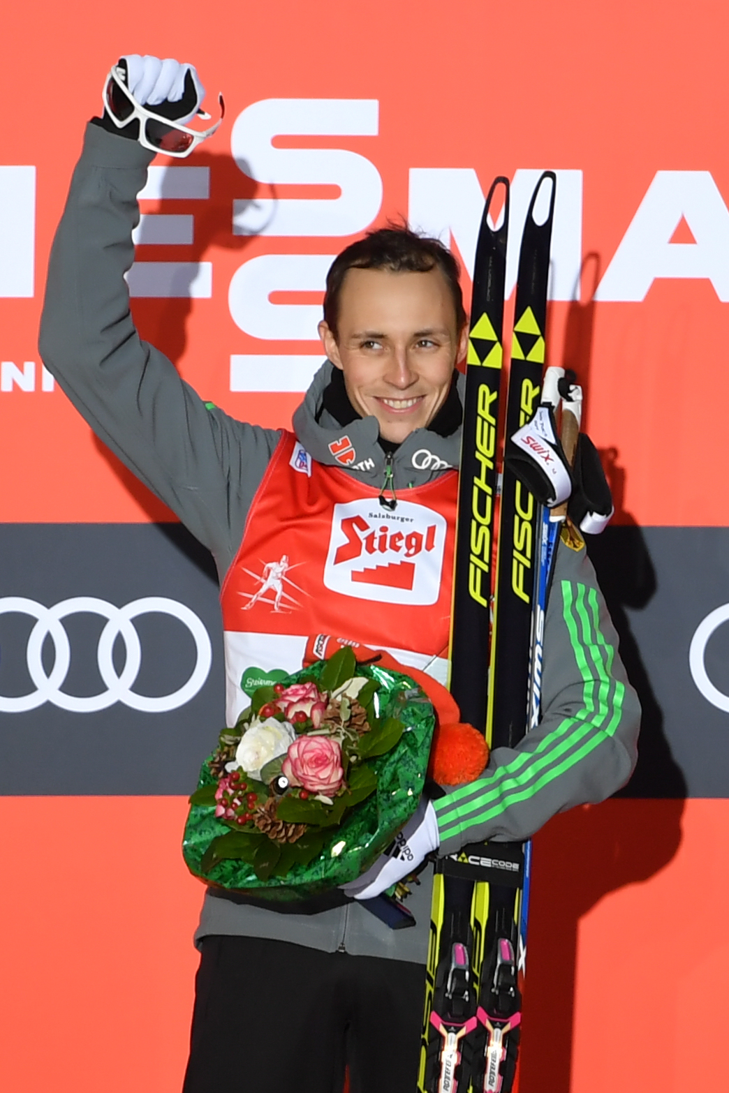 FIS World Cup Nordic Combined, Ramsau/Austria, 2016-12-16 to 2016-12-18.